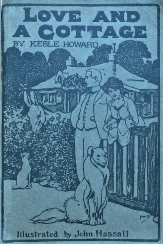 Cover design by John Hassall for paperback edition of novel 'Love And A Cottage', by Keble Howard. Published by Grant Richards in 1903.